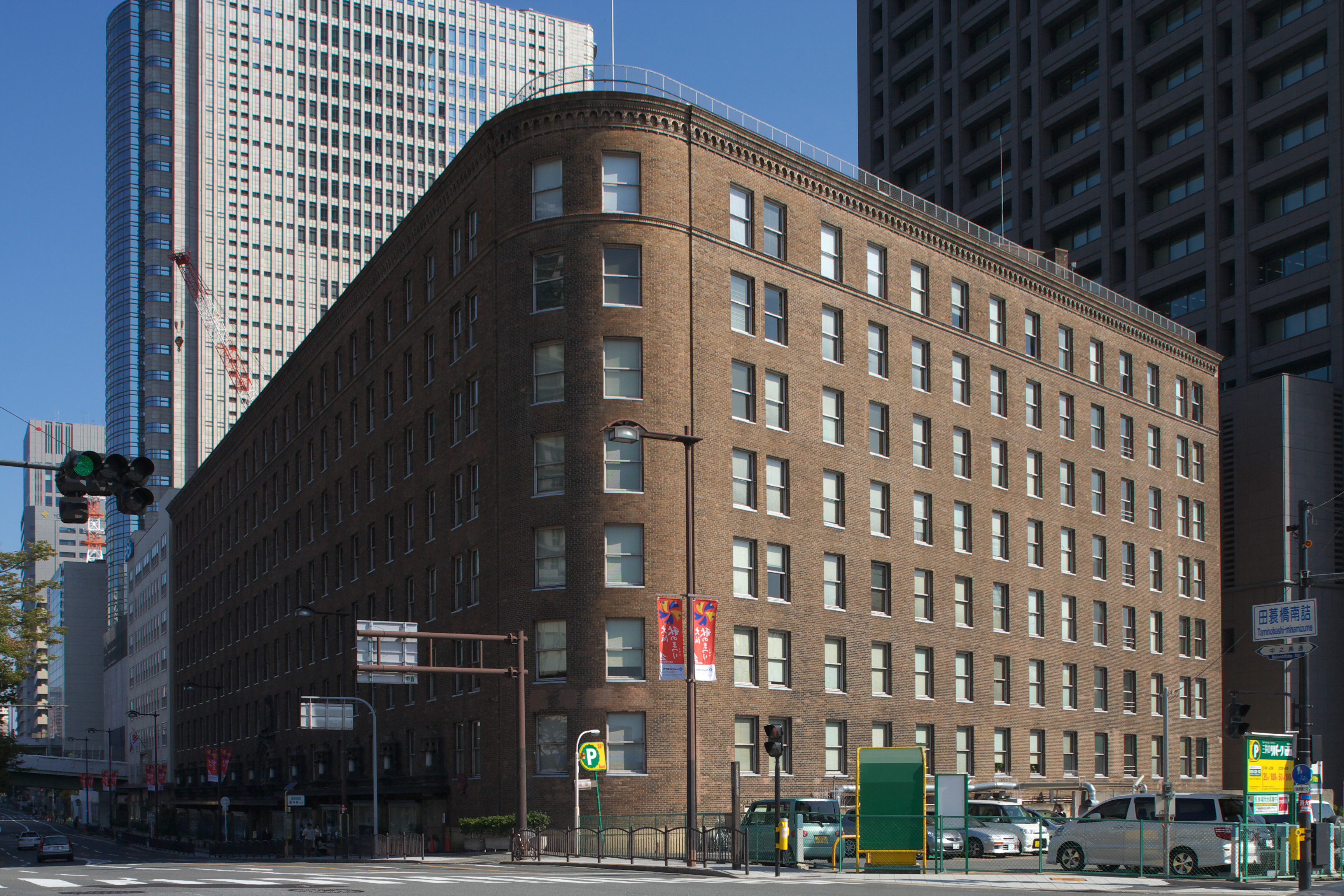 Daibiru (Osaka Building) (Osaka,JAPAN)